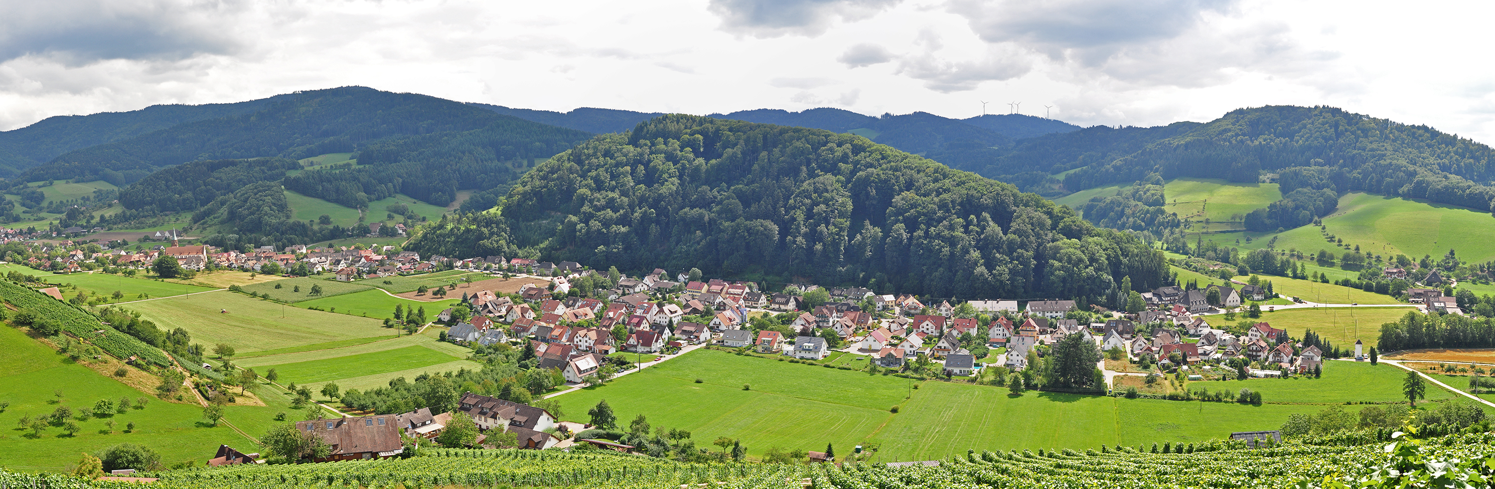 Panoramic view of the western part of Glottertal